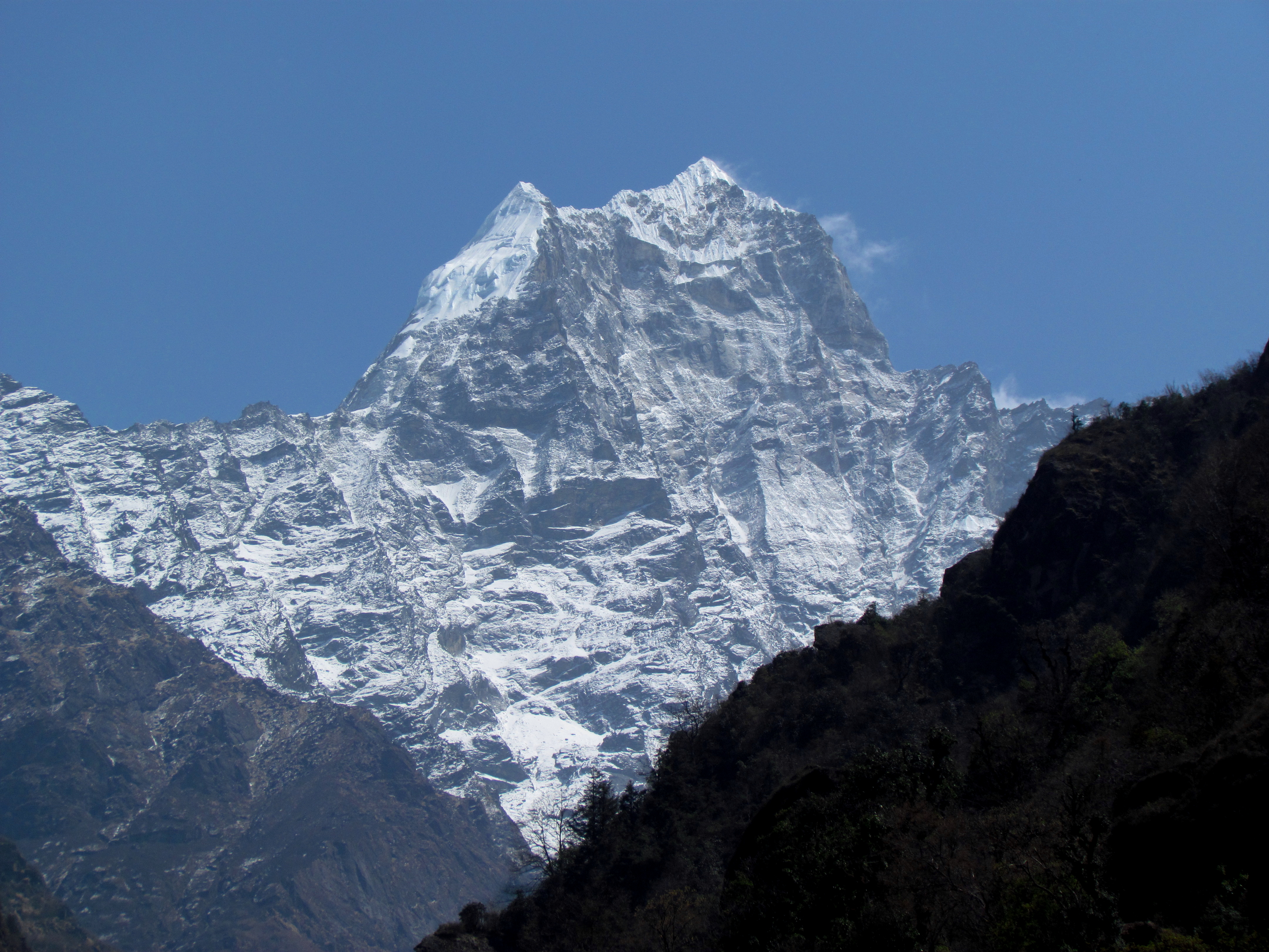 Kusum Kanguru SW face seen from Thado Koshi